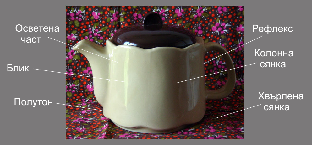 Chiaroscuro